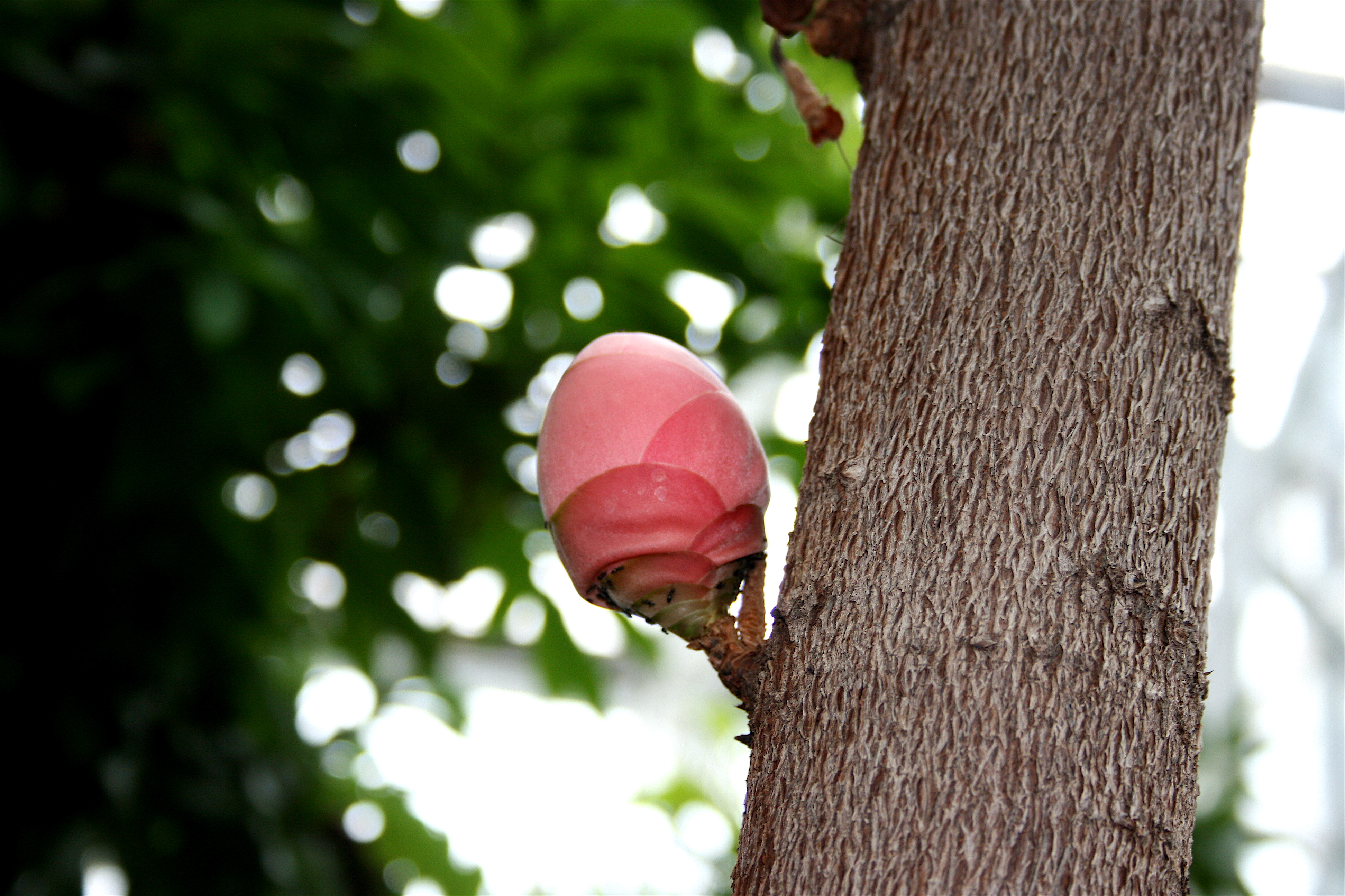 Rose of Venezuela (Brownea grandiceps) at Frederik Meijer Gardens and Sculpture Park in Grand Rapids, MI.